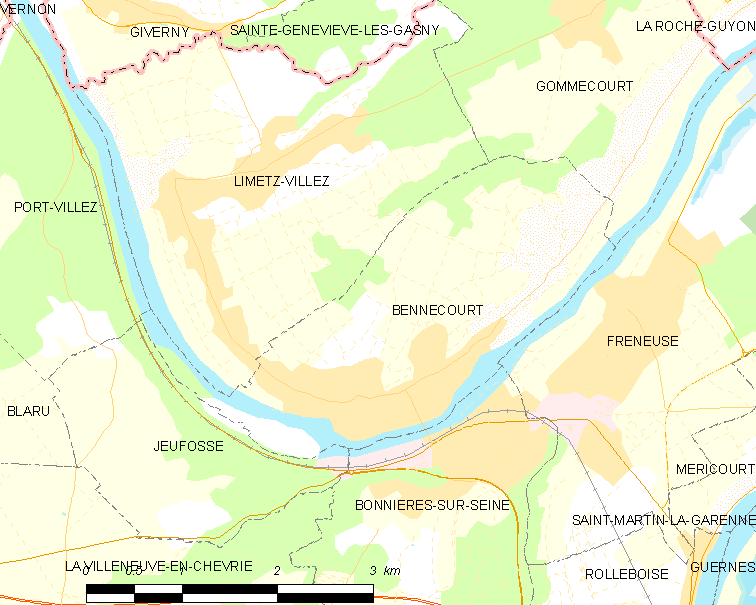 Map of French municipality Bennecourt